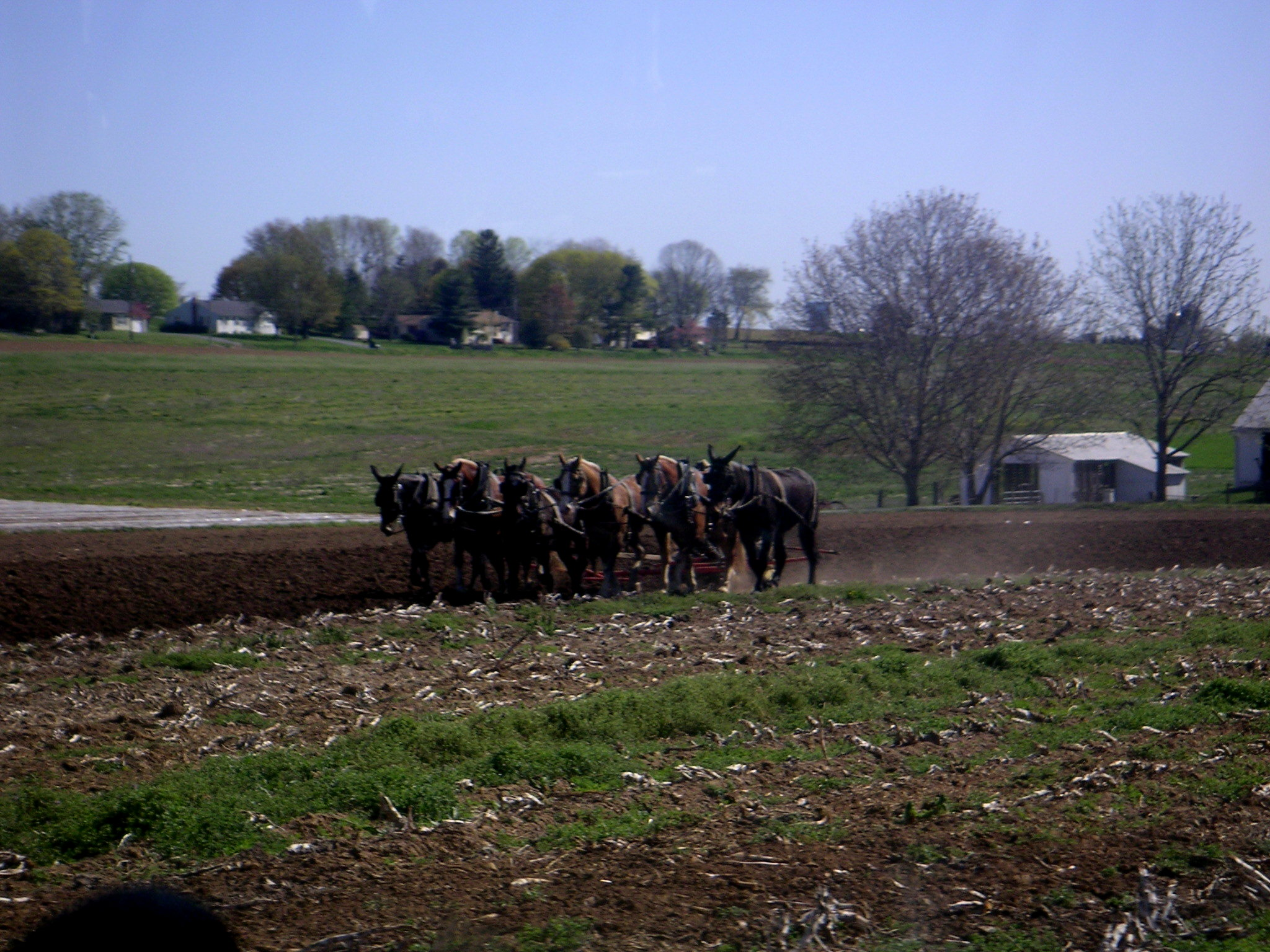 Agriculture in Pennsylvania, Amish country